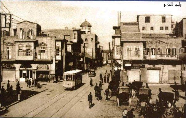 Old city of Aleppo